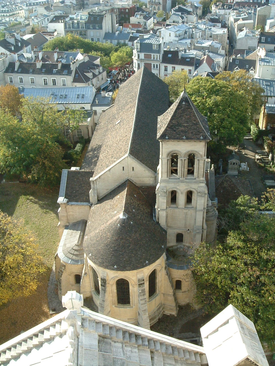 Taken by James@hopgrove, October 2005.